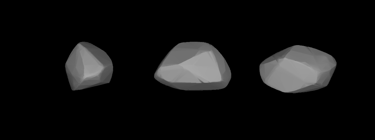 A three-dimensional model of 1056 Azalea that was computed using light curve inversion techniques.